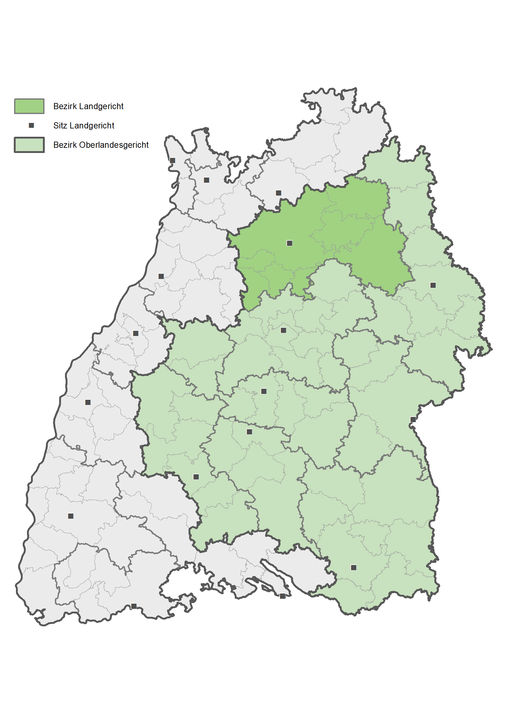 district map of the Landgericht (regional cort) Heilbronn in Baden-Württemberg, Germany